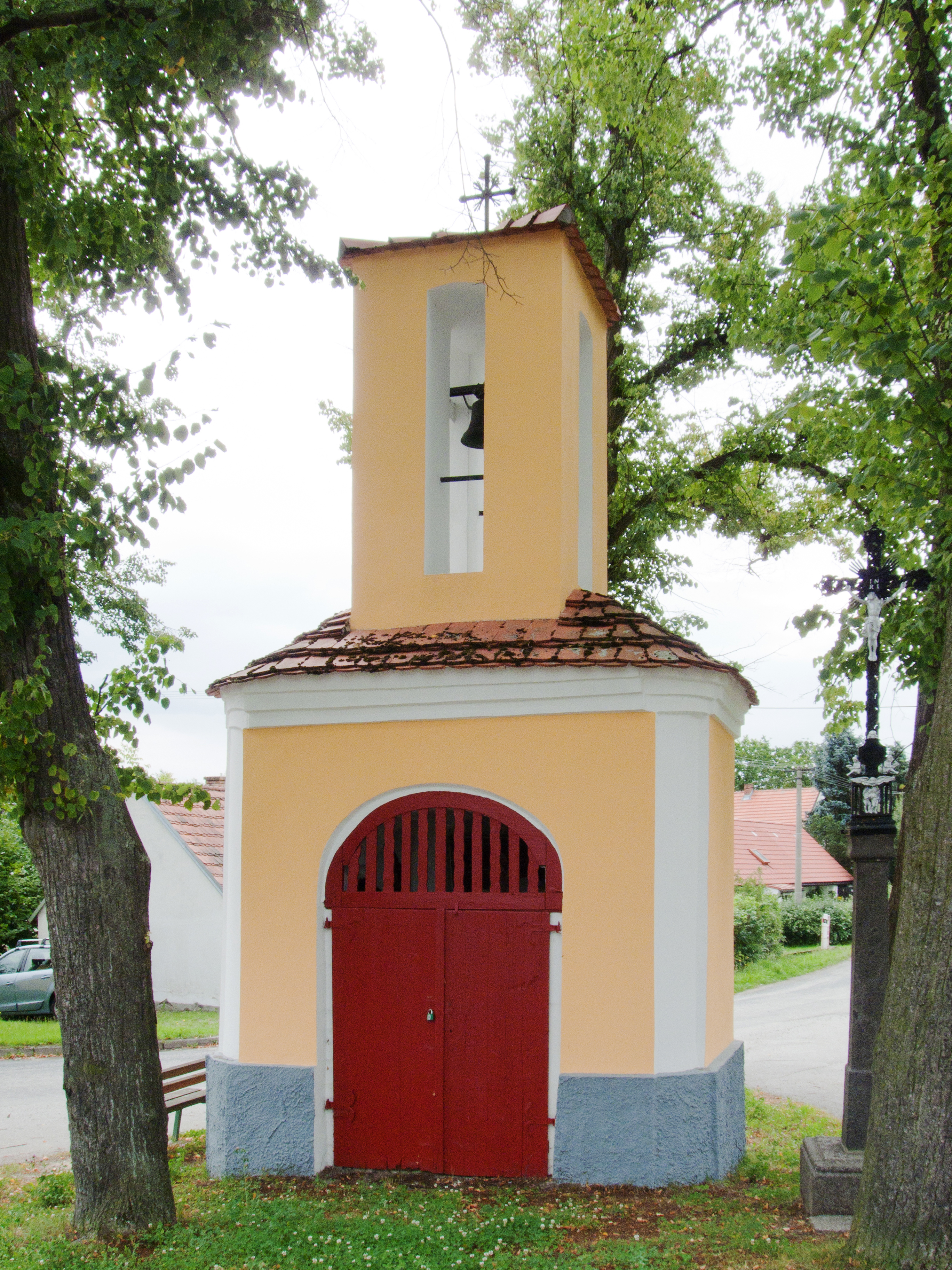 Chapel in the village of Slavětice, České Budějovice District, Czech Republic